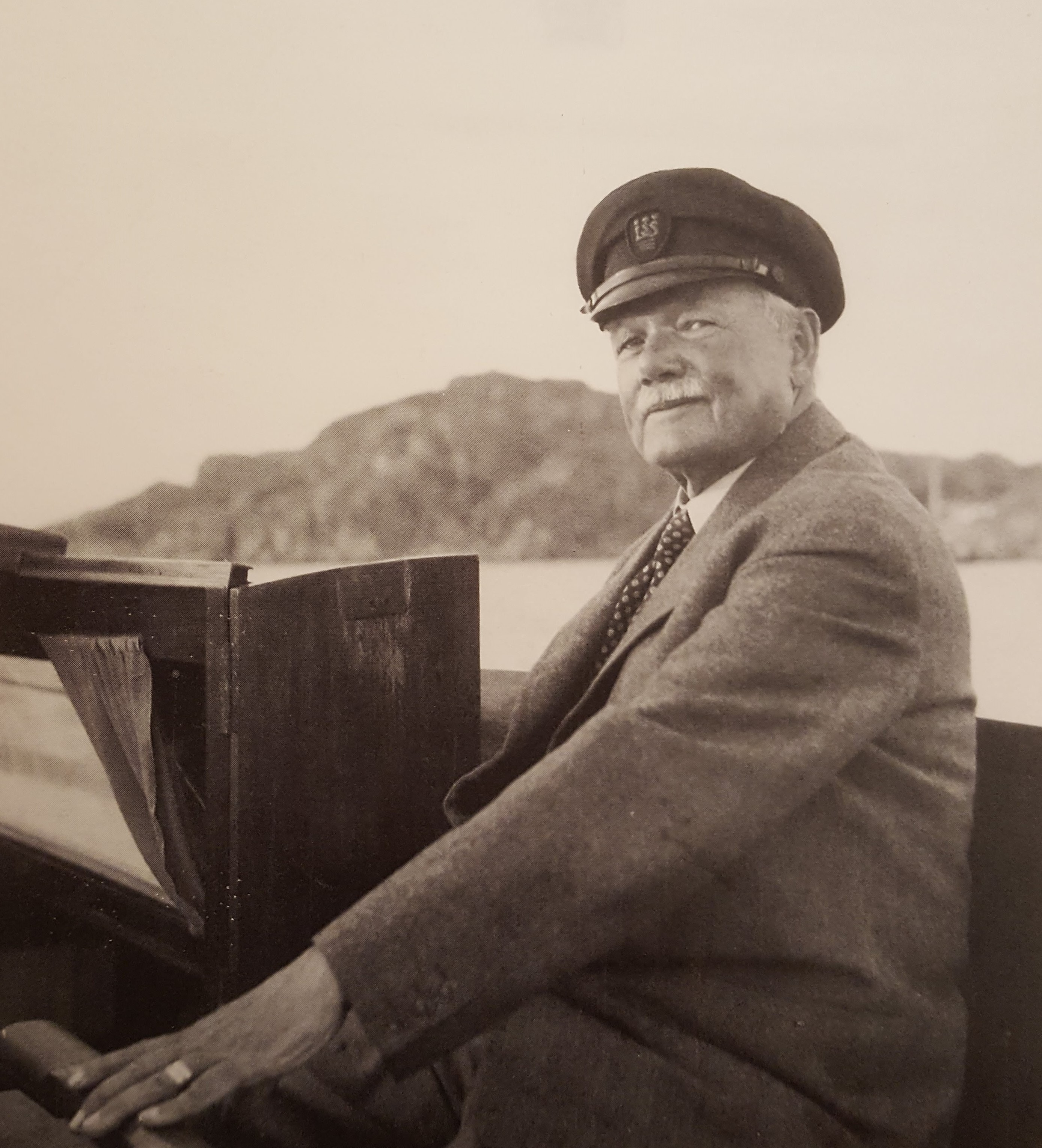 Sailor and yacht designer Fredrik Ljungström onboard Vingen 12 (for Life, "Landlubber's delight", 10 September 1951).